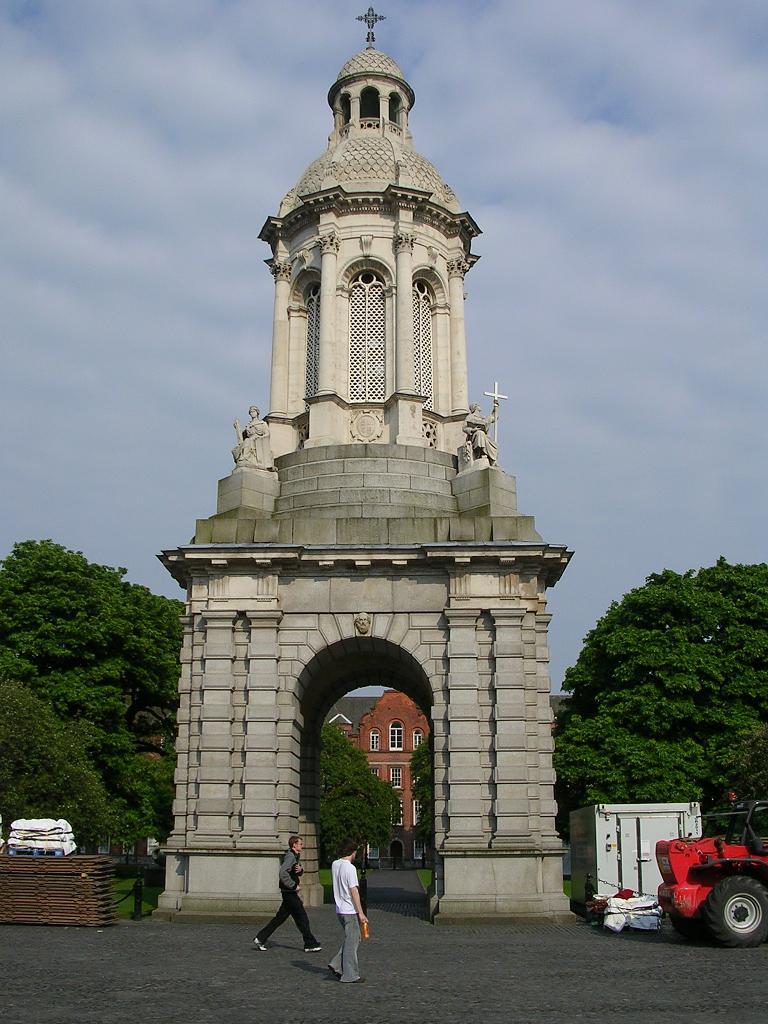 Trinity_College